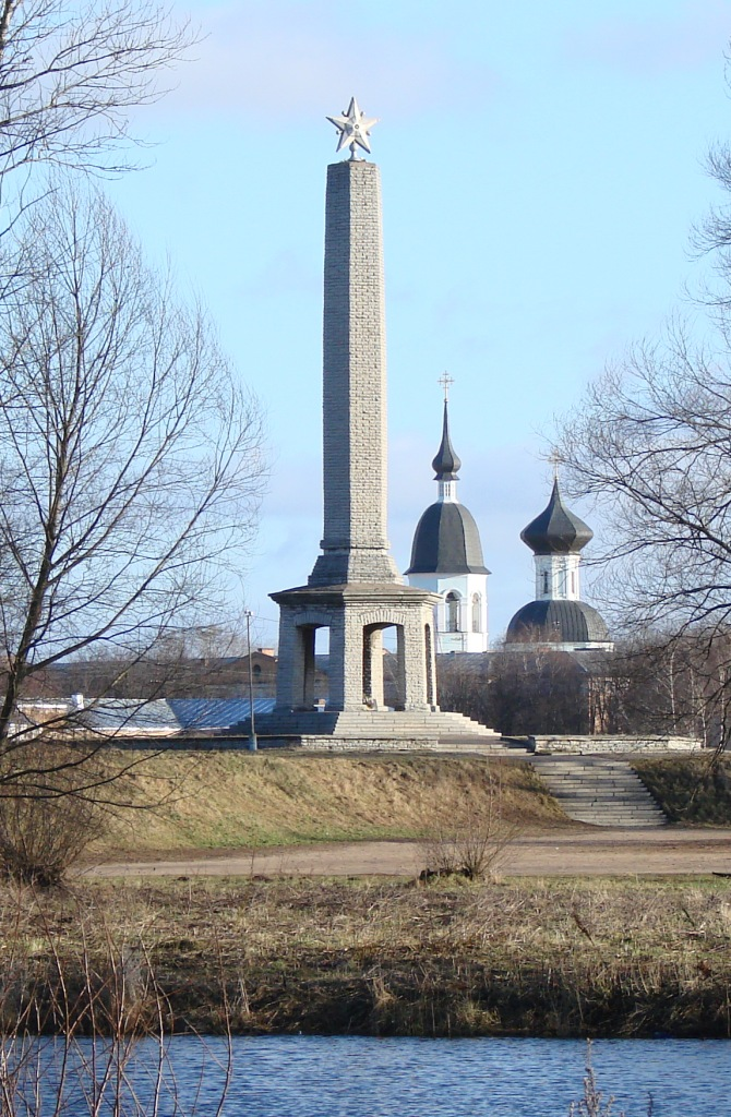 War memorial in the city of Velikiye Luki